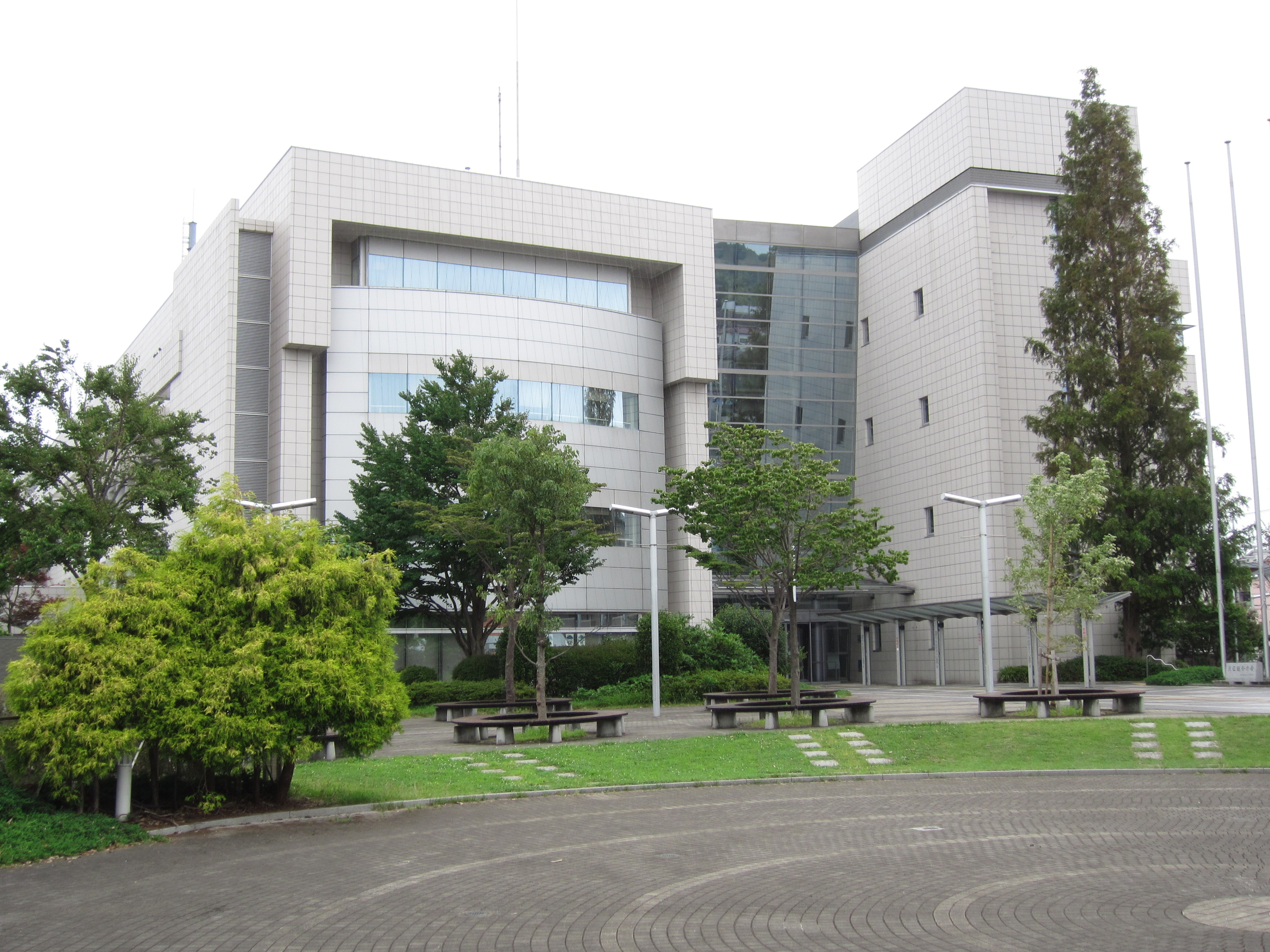 Yokohama City Izumi Ward Office